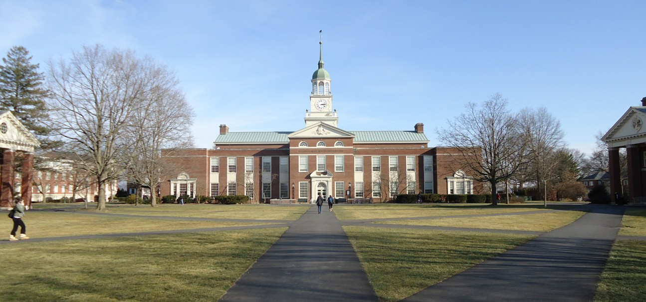 Academic Quad, Bucknell University